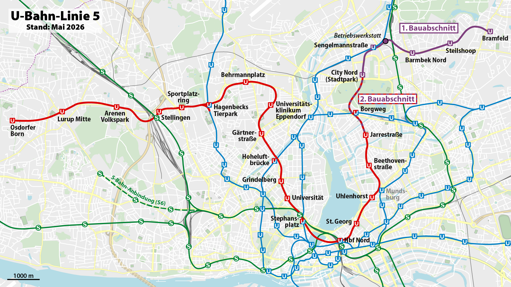 Projected line U5 of Hamburg U-Bahn. This map may be incomplete, and may contain errors. Don't rely solely on it for navigation.